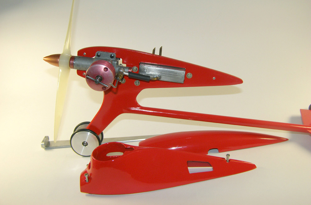 USSR diesel model engine MK-17 1,5ccm